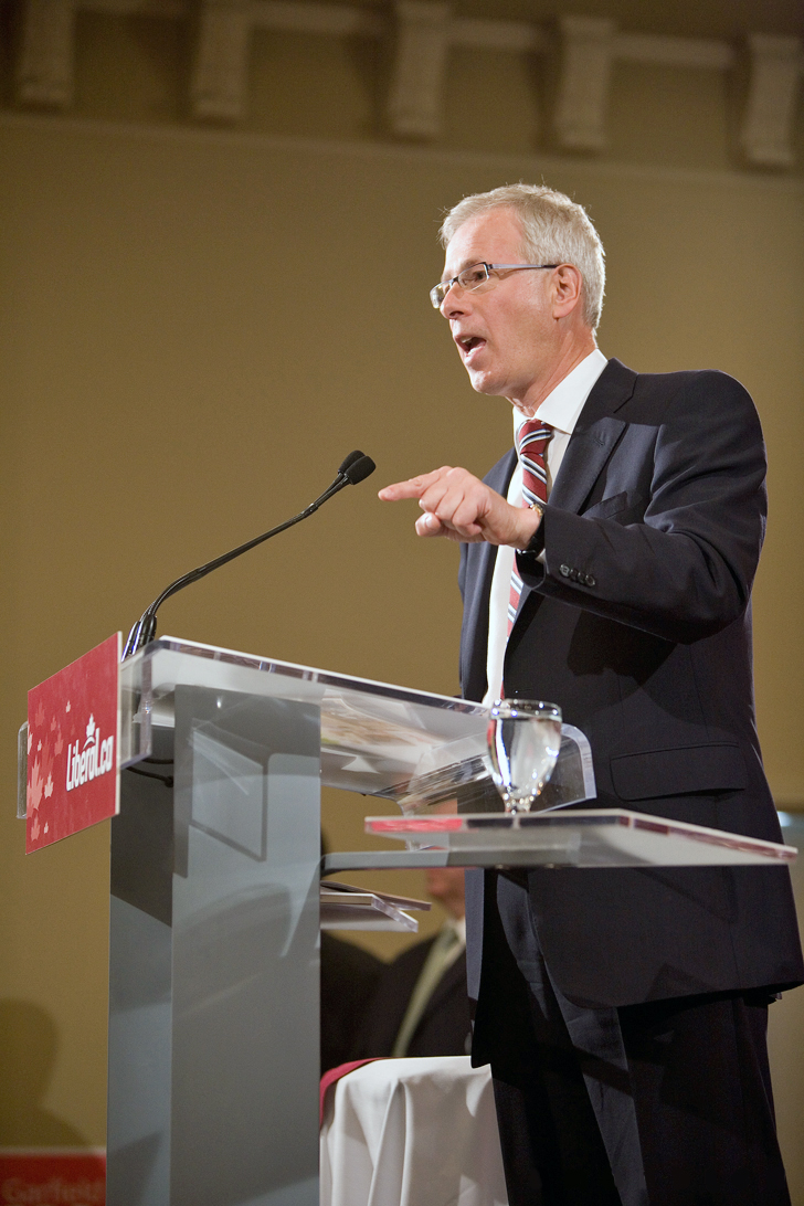 Stephane Dion addresses a standing-room-only crowd at a Town Hall event at the Greenwood Inn and Suites in Calgary on September 22, 2008.